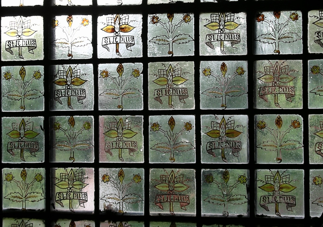 Window detail of The Red House in Bexleyheath, Kent. The stained glass was designed by Edward Burne-Jones